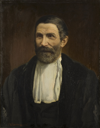 Dutch jurist Bernardus Dominicus Hubertus Tellegen (1823-1885)